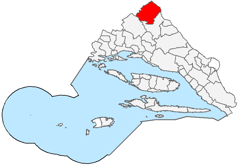 Creek